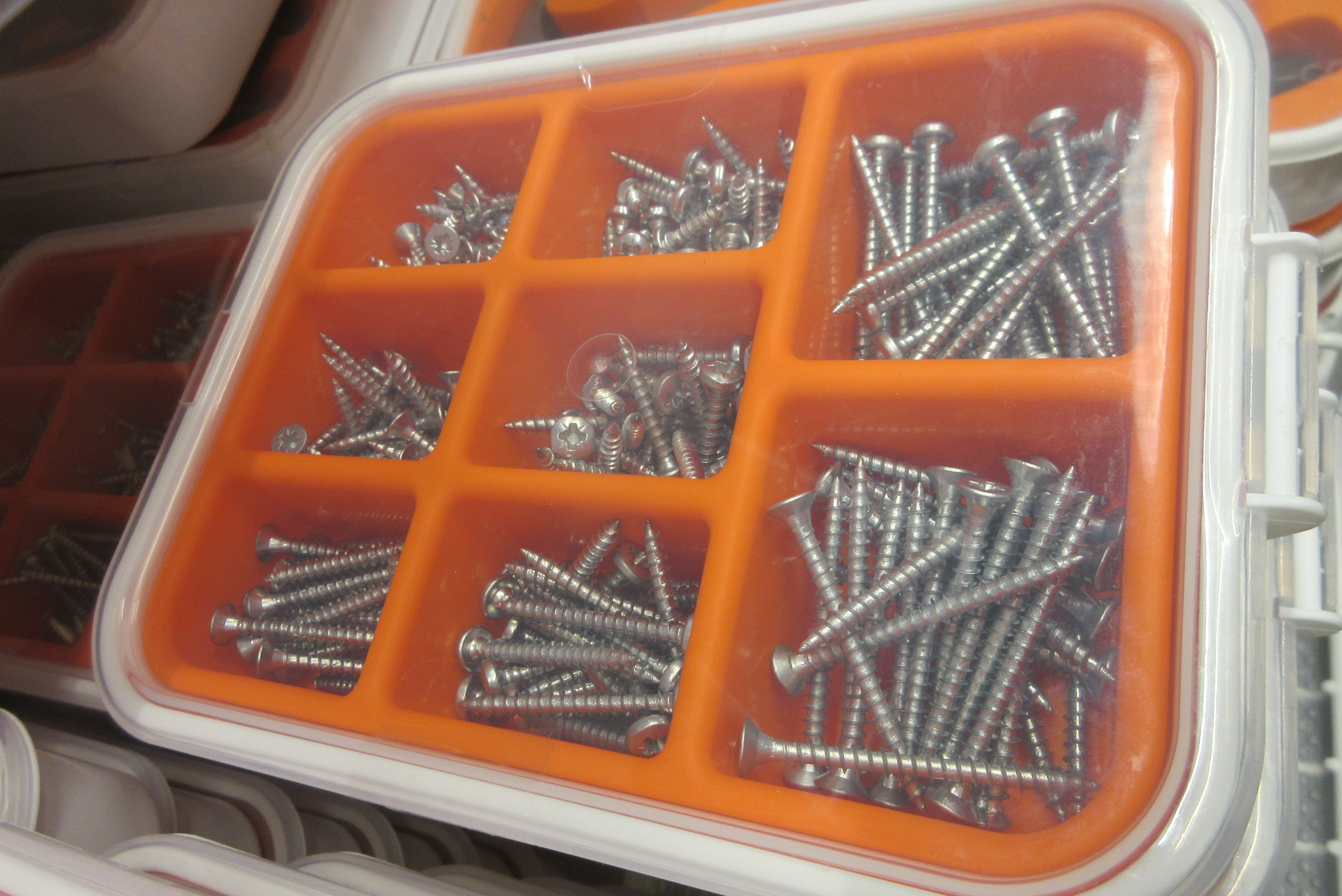 HK 銅鑼灣 CWB 宜家家居 IKEA shop tool kit box in July 2017